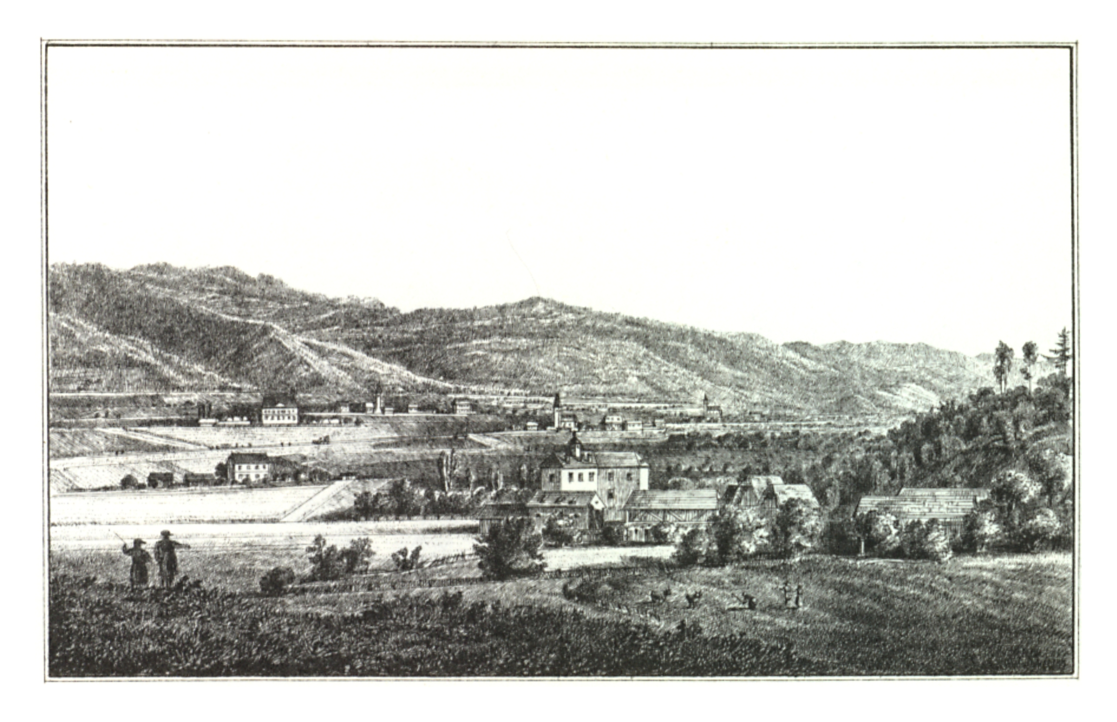 J. F. Kaiser - lithographirte Ansichten der Steyermärkischen Städte, Märkte und Schlösser Graz, 1825 Joseph Franz Kaiser (1786–1859) Alternative names J. F. KaiserDescriptionAustrian printer and editorDate of birth/death 11 March 1786 19 September 1859Location of birth/death Graz (Styria) GrazAuthority control : Q1499963 VIAF: 30629353 ISNI: 0000 0000 3083 0153 LCCN: n87141671 GND: 129880159 NLP: A24960305 WorldCat creator QS:P170,Q1499963 Scanprojekt Community Projektbudget 2012 This scan or this PDF-file was created within the GLAM-project Bookscanning, supported by Wikimedia Germany and Wikimedia Austria as a part of the community-project to capture books, documents and pictures which are not eligible to copyright or for which the copyright has expired. This document describes or depicts an object which is located in Austria today. Send requests for uncompressed scans to Hubertl. This work is in the public domain in its country of origin and other countries and areas where the copyright term is the author's life plus 100 years or less. You must also include a United States public domain tag to indicate why this work is in the public domain in the United States. This file has been identified as being free of known restrictions under copyright law, including all related and neighboring rights.